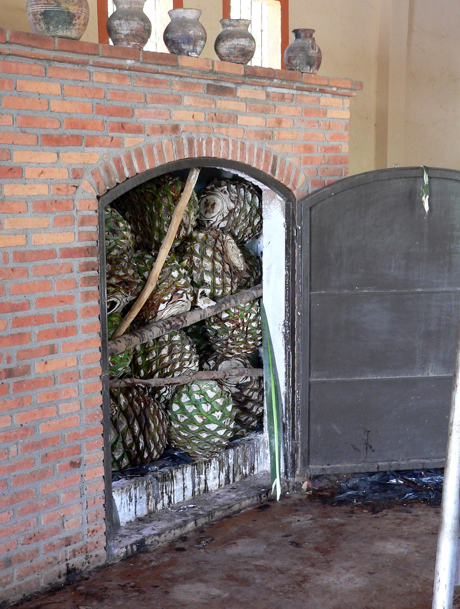 Photo of tequila oven (kiln) at Dona Engracia hacienda, Jalisco, Mexico